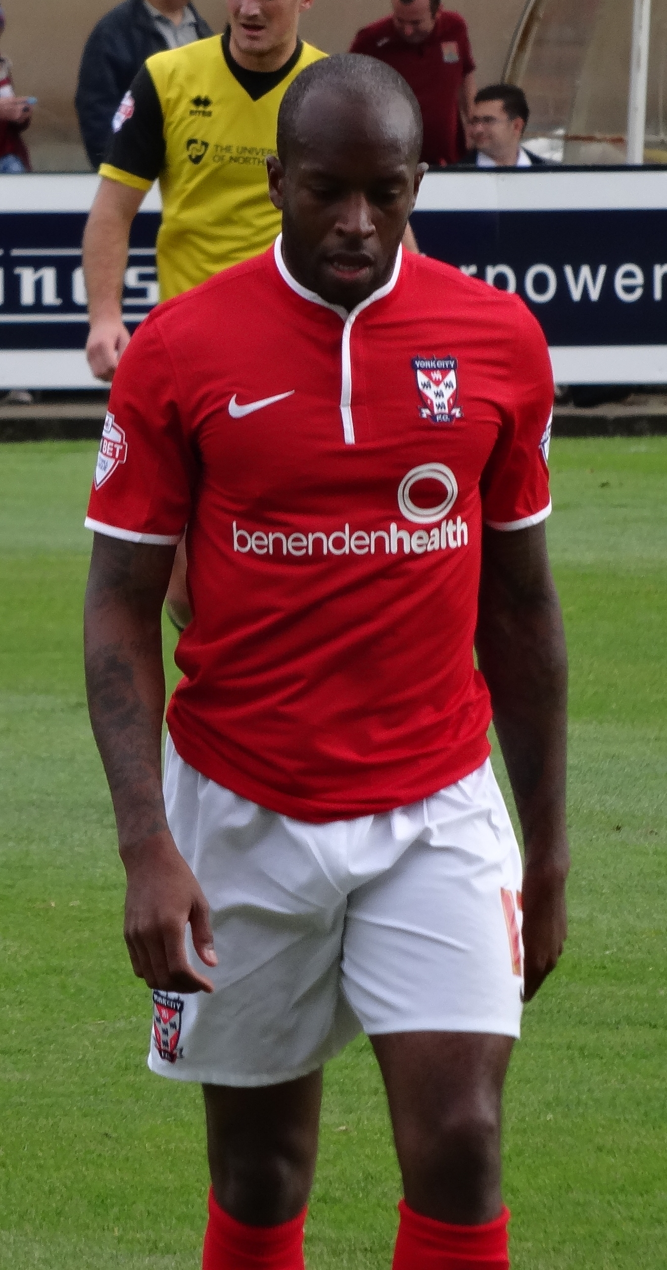 Anthony Straker playing for York City against Northampton Town at Bootham Crescent, York on 16 August 2014